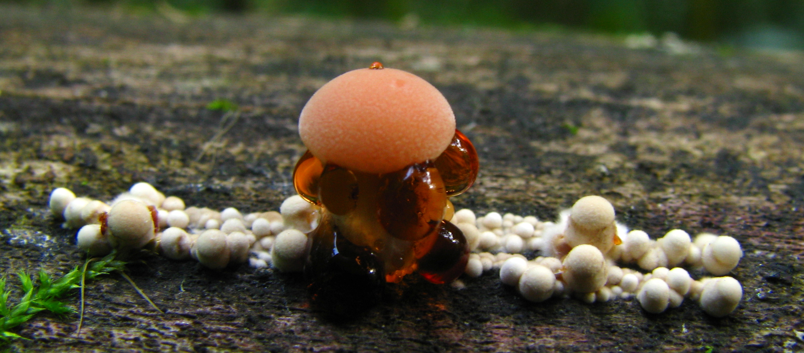 Rhodotus palmatus (Bull.) Maire Location: Strouds Run State Park, Athens, Ohio, USA Observation Notes: is this the same veil that eventually forms a wrinkled net on the cap? For more information about this, see the observation page at Mushroom Observer.